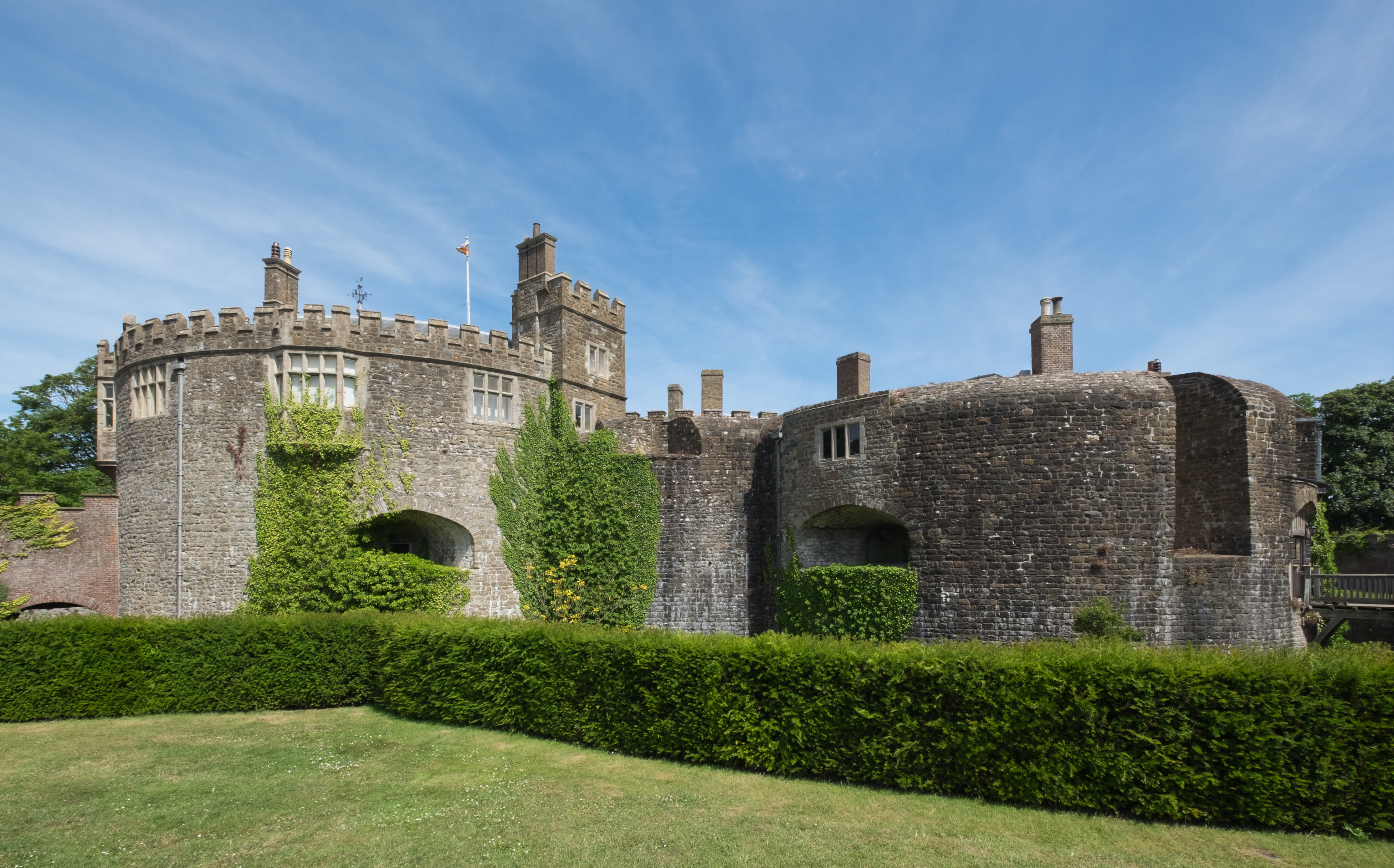 Walmer Castle, Kent. This castle, built by Henry VIII between 1539 and 1540, is a listed building in England